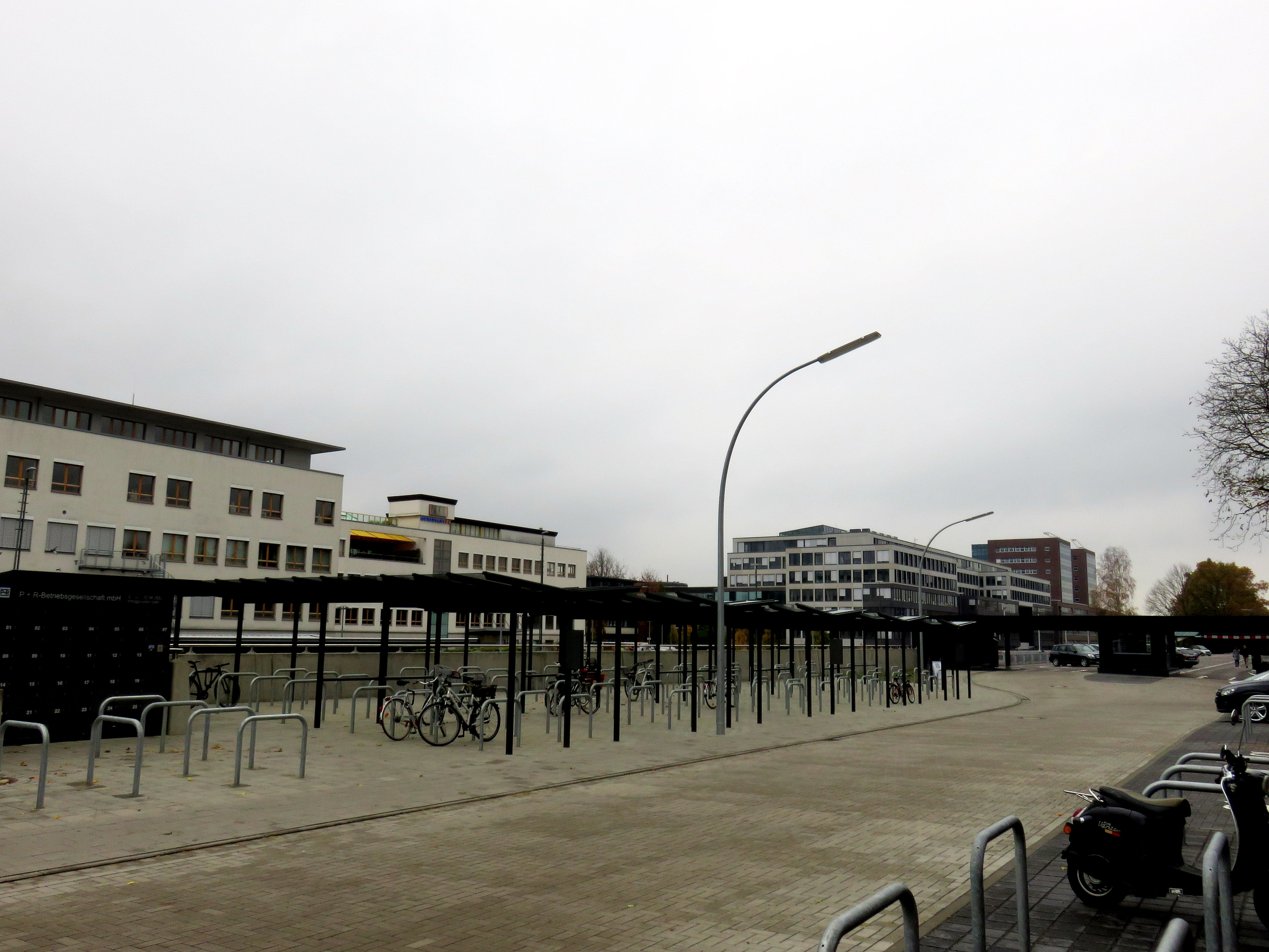 The new Park-and-ride system with Park-and-bike-system at S-Bahn (suburban train) station (chargeable), Hamburg-Poppenbüttel.